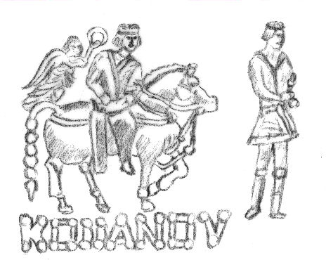 Depiction of Heraios from his clearest coins.